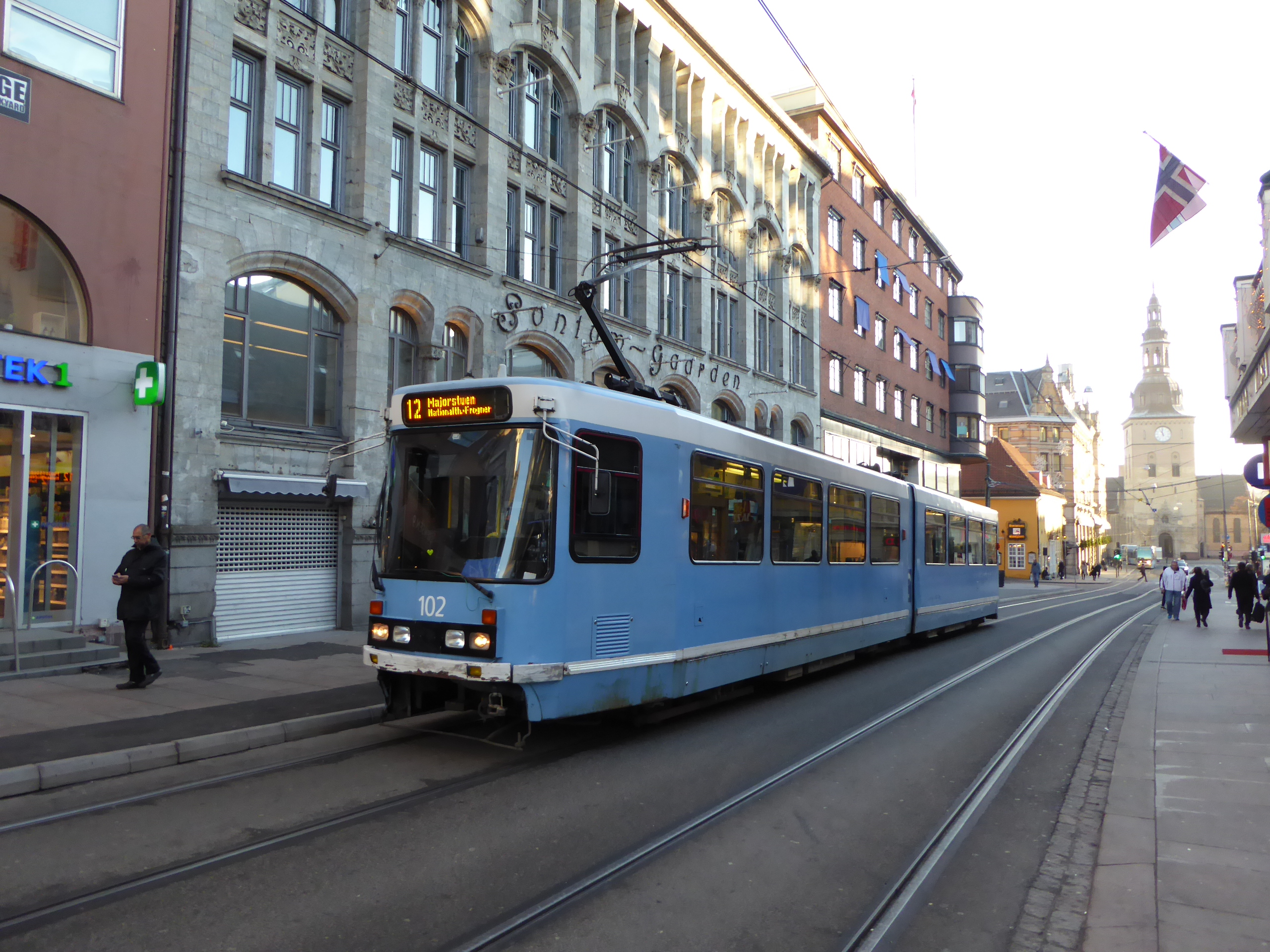 Oslo tram line 12 at temporary tram stop on Grensen in Oslo. In the background at the right Oslo Domkirke can be seen.